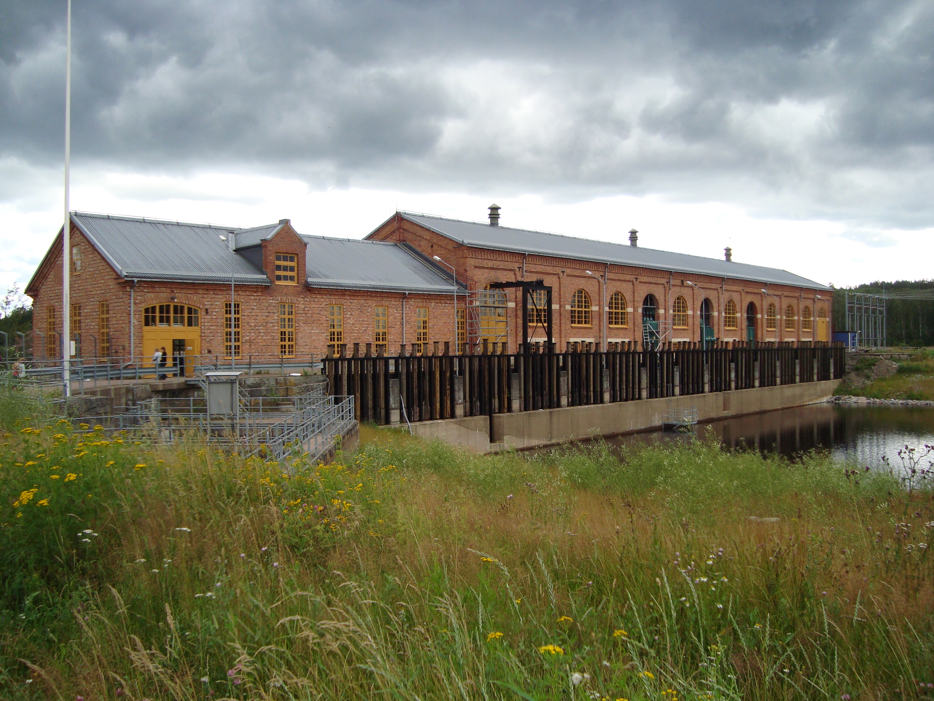 Hydropower museum of Näs, Avesta municipality, Sweden